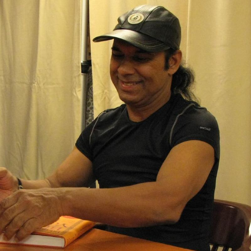 Bikram Choudhury at a book signing in New York in 2007. Bikram Choudhury (born 1946) is a multi-millionaire Indian yoga guru and the founder of Bikram Yoga